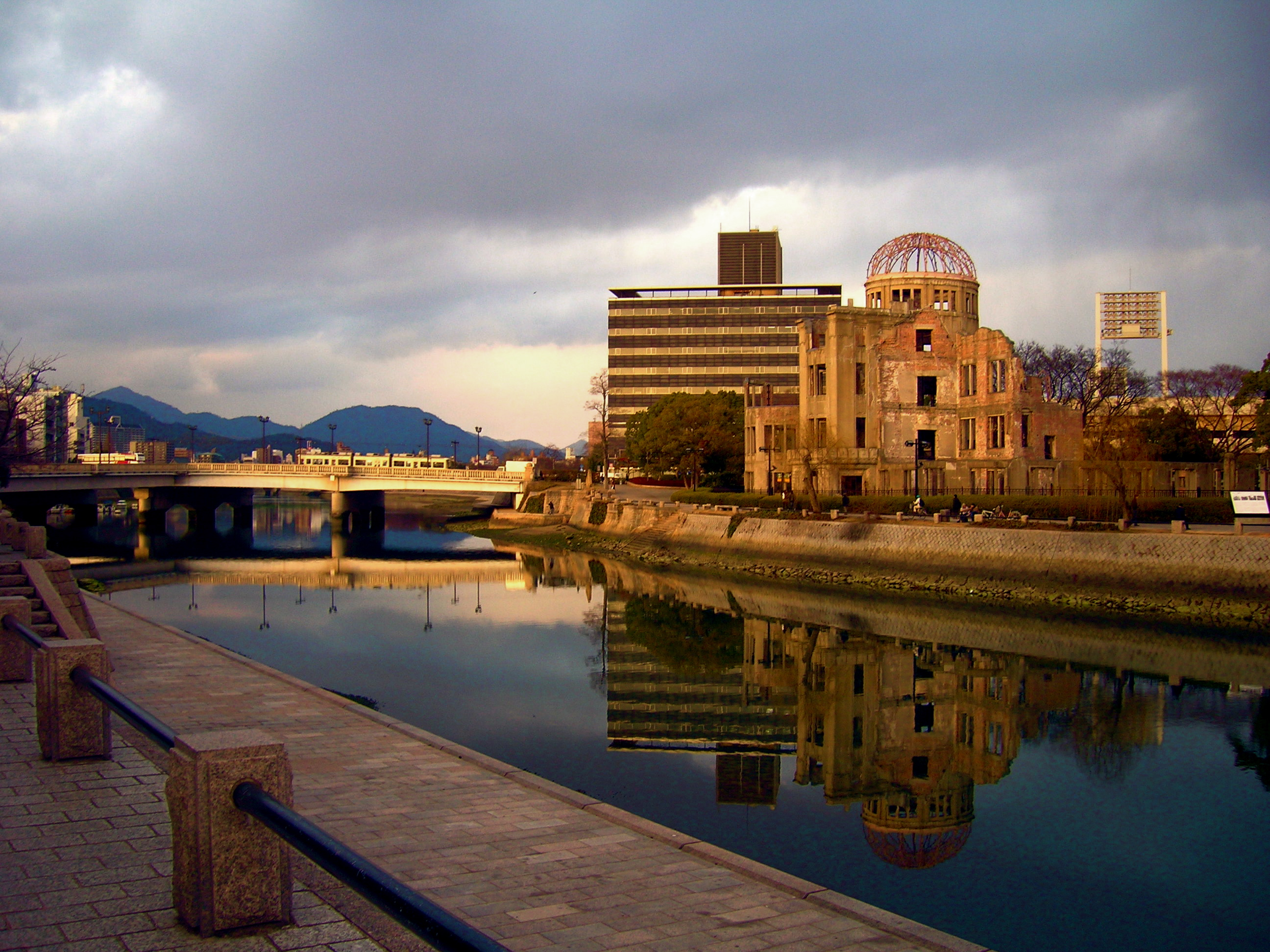 Hiroshima A-Bomb Dome at sunset from river quay.